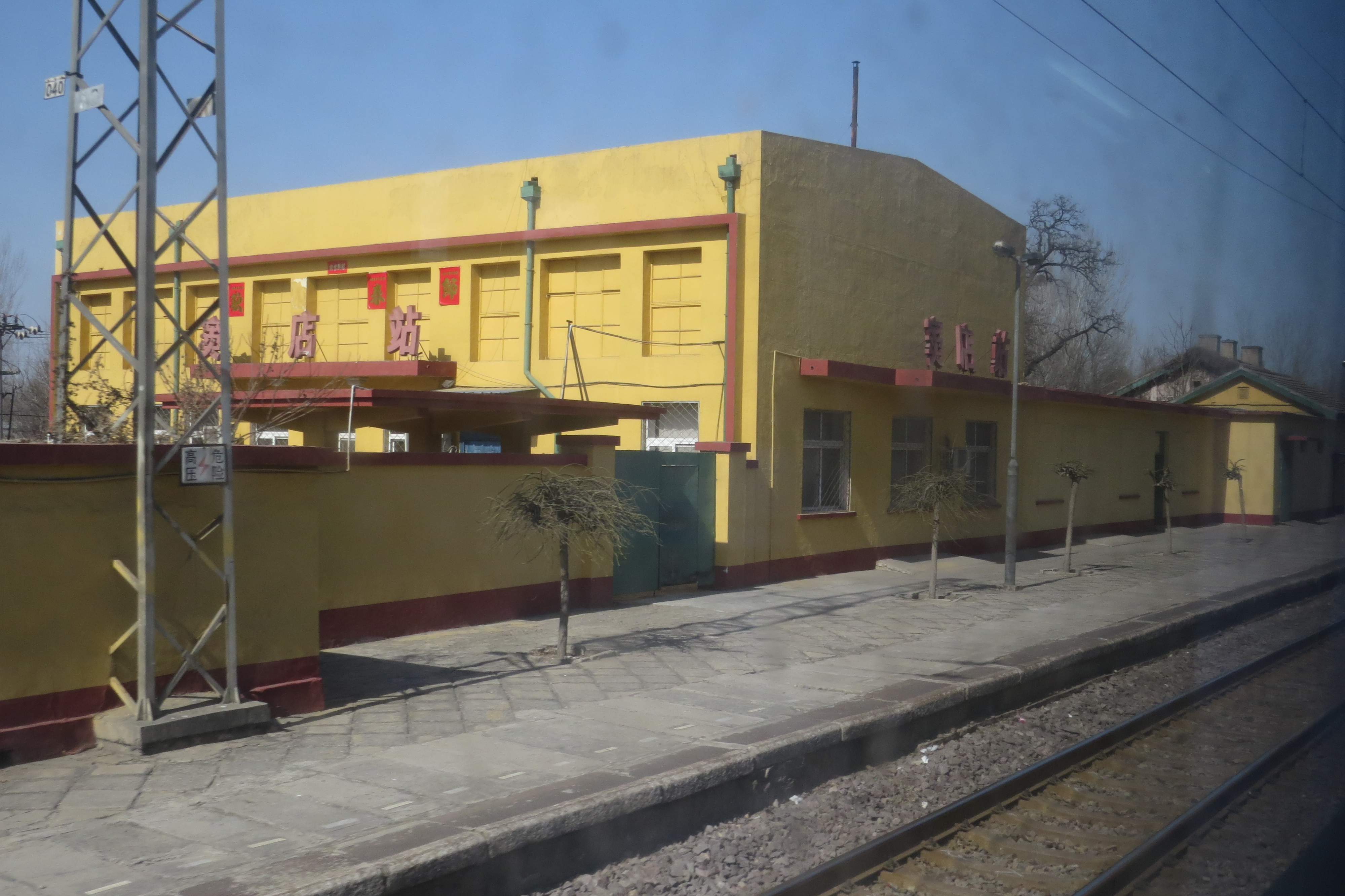 Taken from T168.